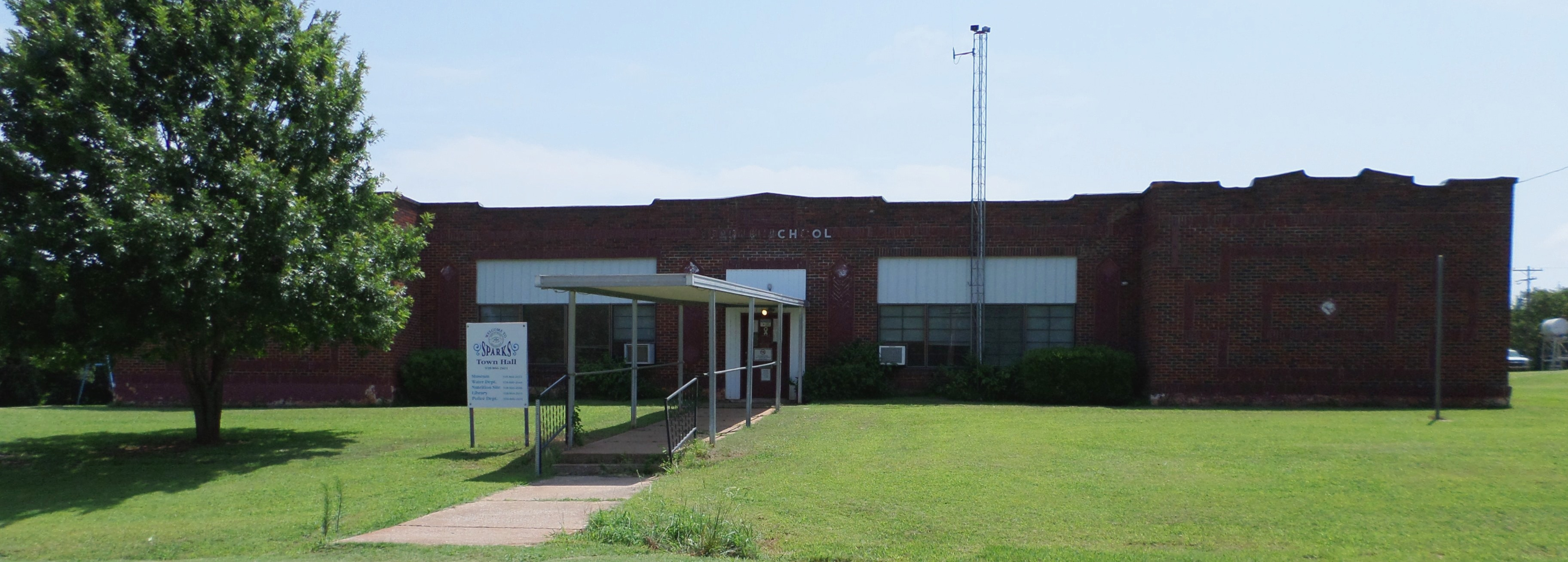 Sparks Town Hall, located at 308 S. 6th St., Sparks, OK.